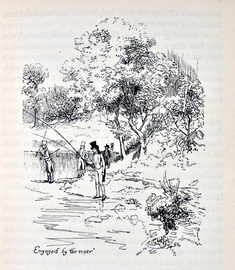 "Engaged by the river" - Mr. Gardiner, Mr. Darcy and others enjoying the river at Pemberley. Austen, Jane. Pride and Prejudice. London: George Allen, 1894.